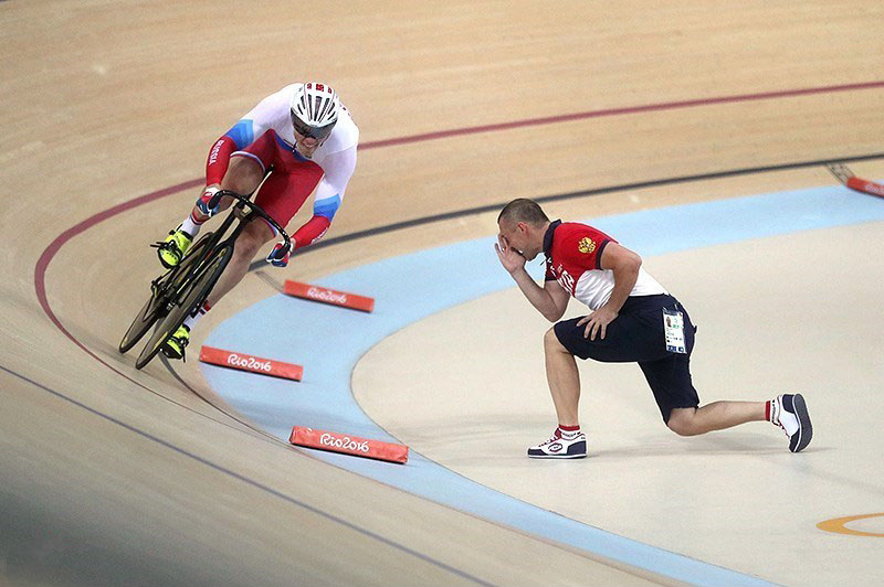 Track cyclist from Russia at the 2016 Summer Olympic